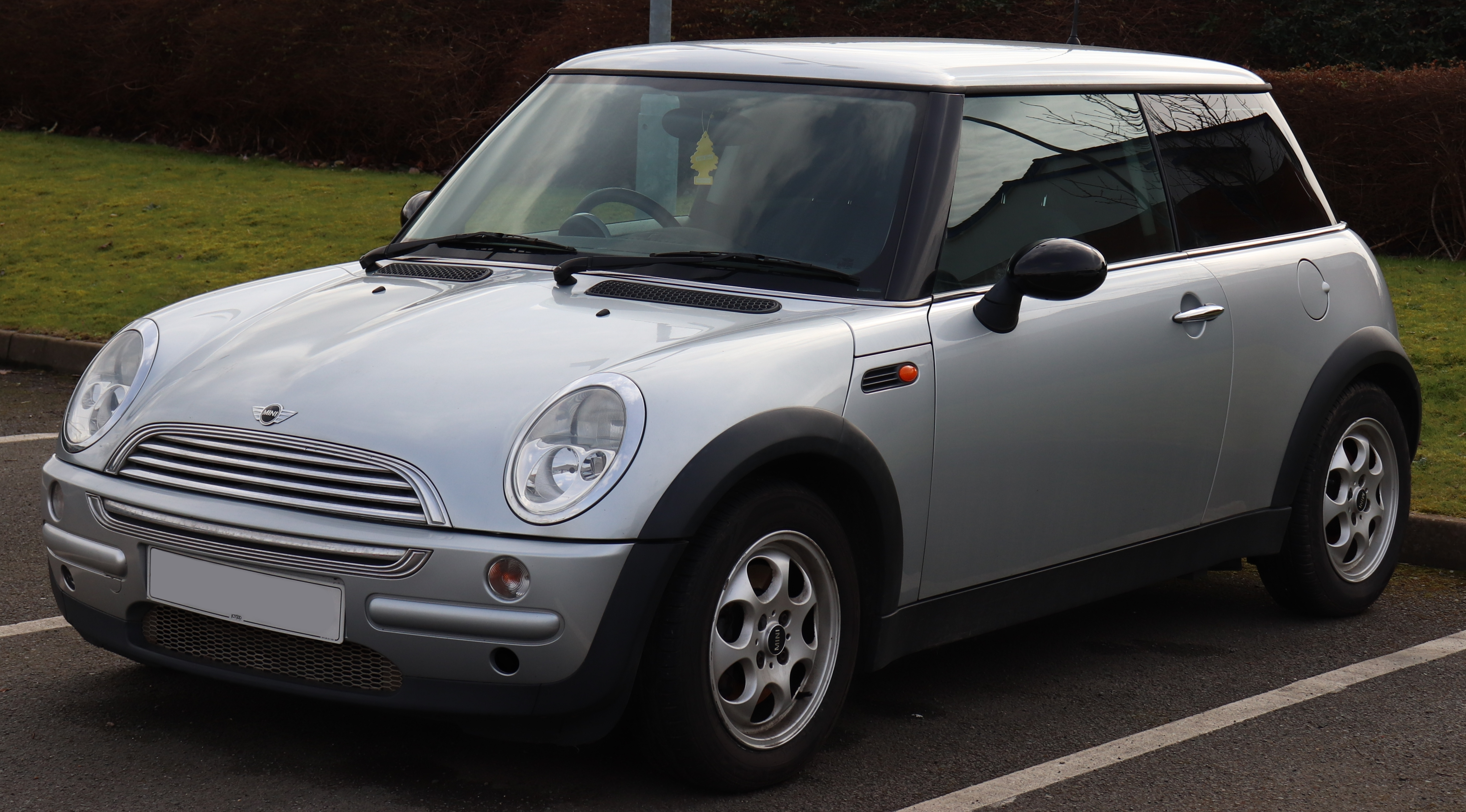 2004 Mini Cooper 1.6 Taken in Leamington Spa